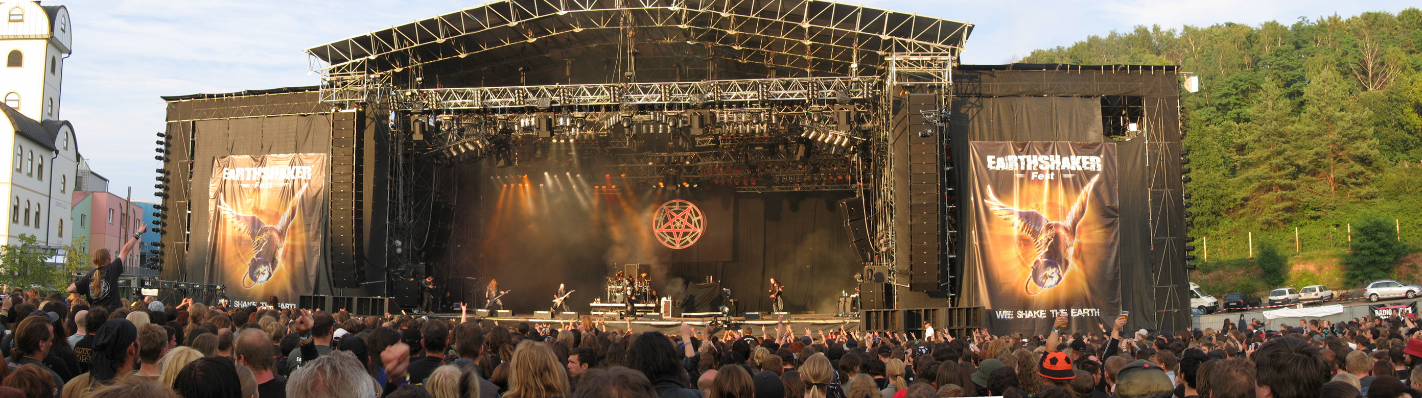 Earthshaker 2005 Dimmu Borgir live panorama